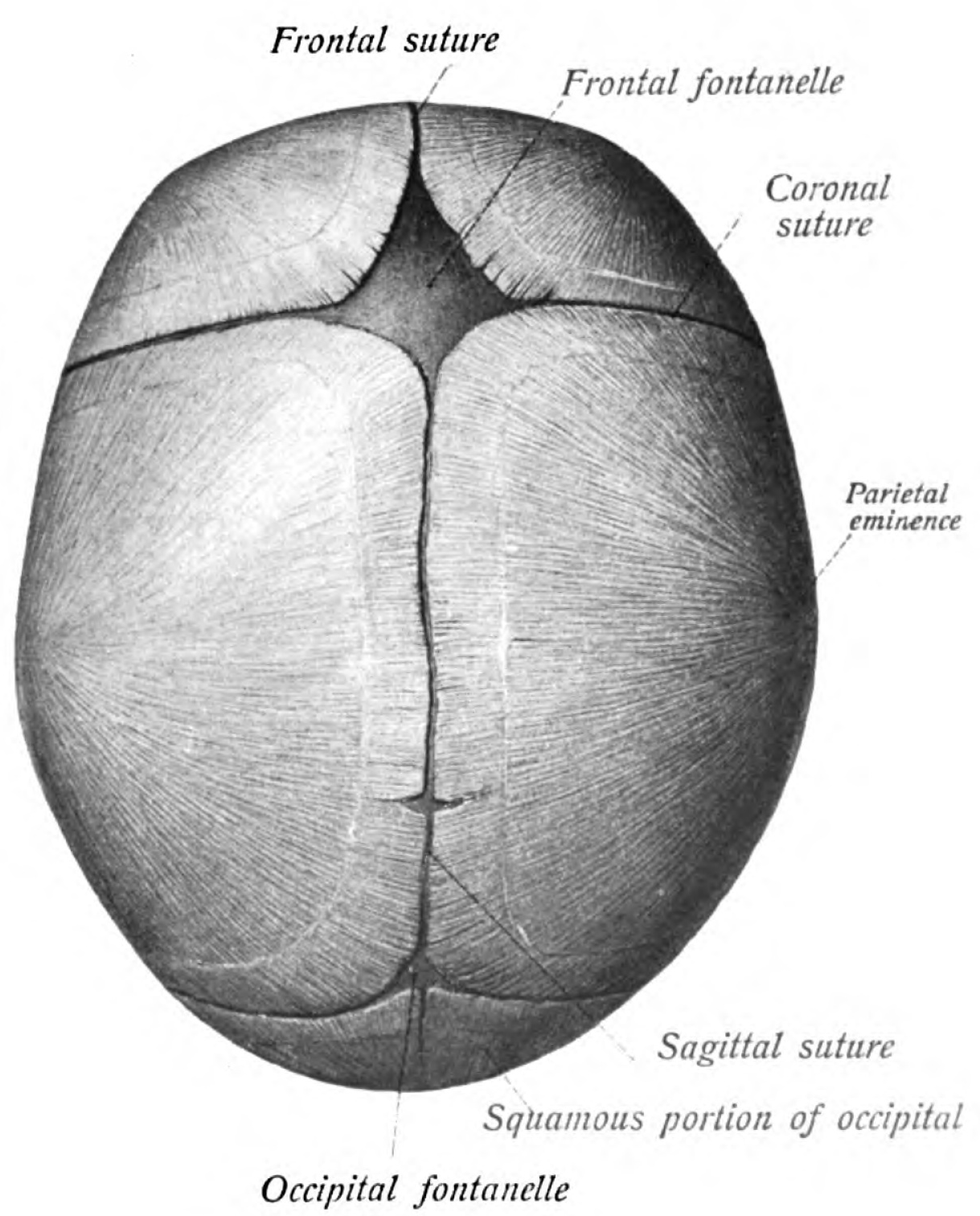 Skull of a new-born child from above.